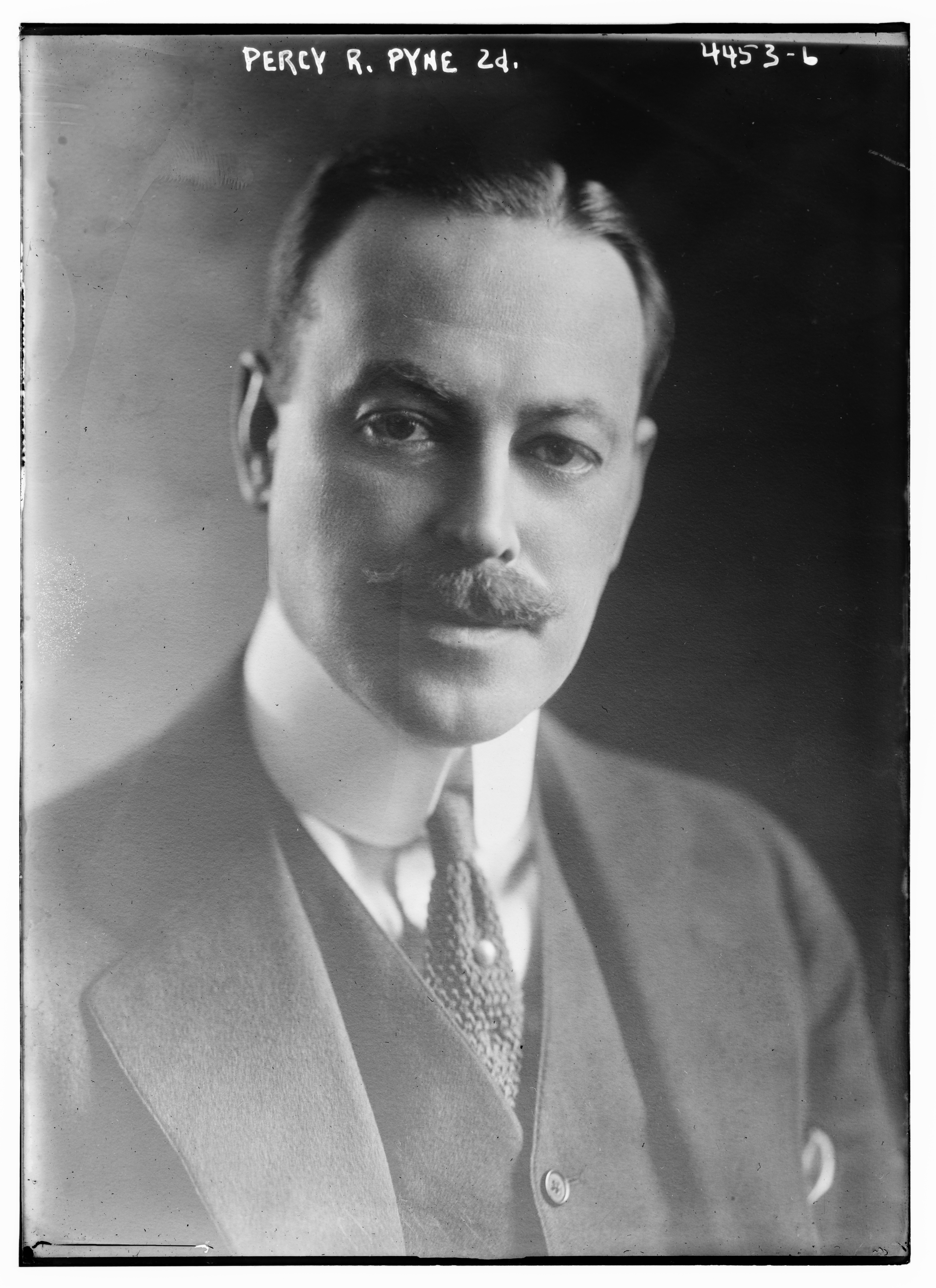 Percy Rivington Pyne II in 1918